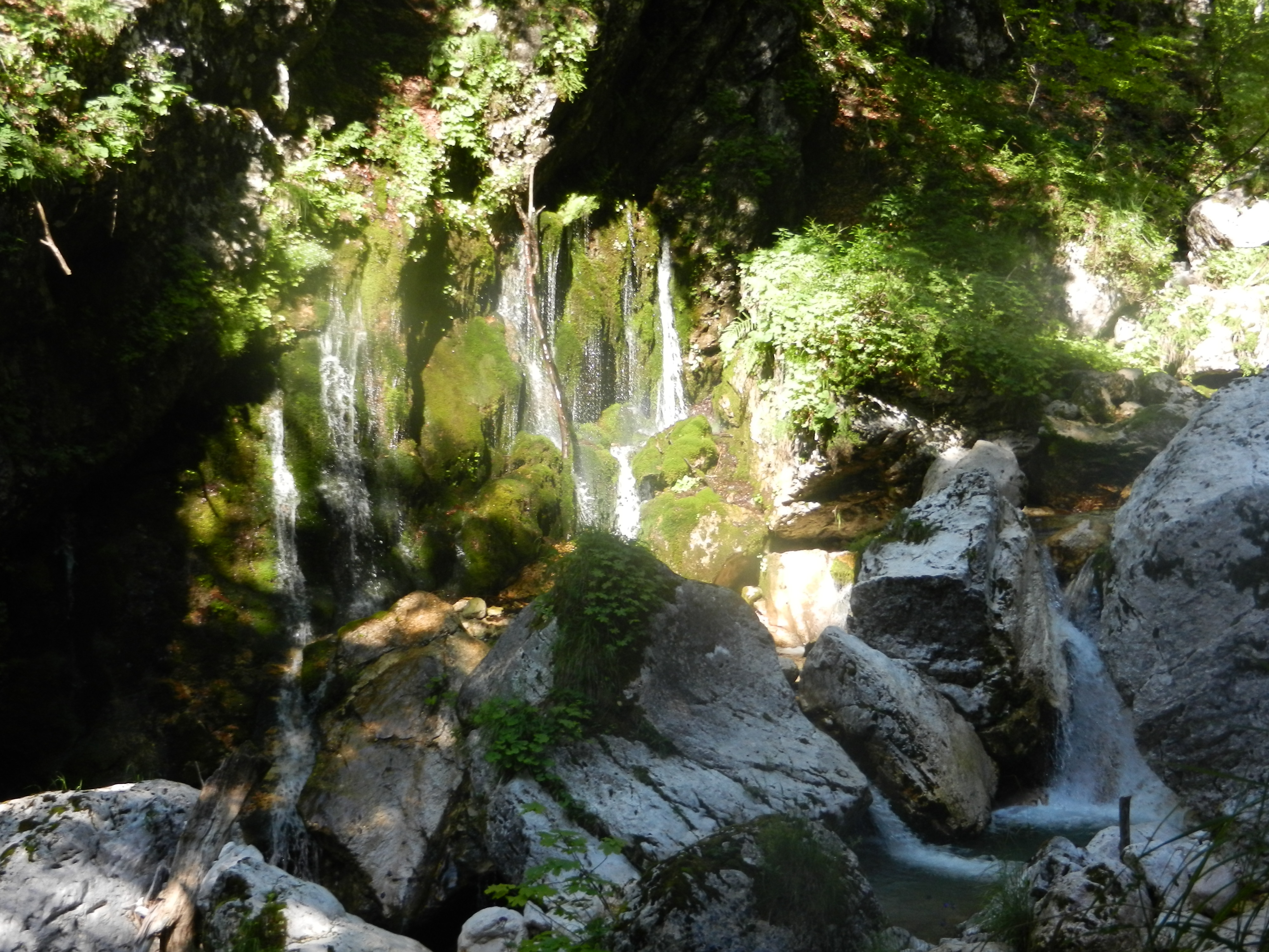 The source Možnica (old name: Nemčlja)